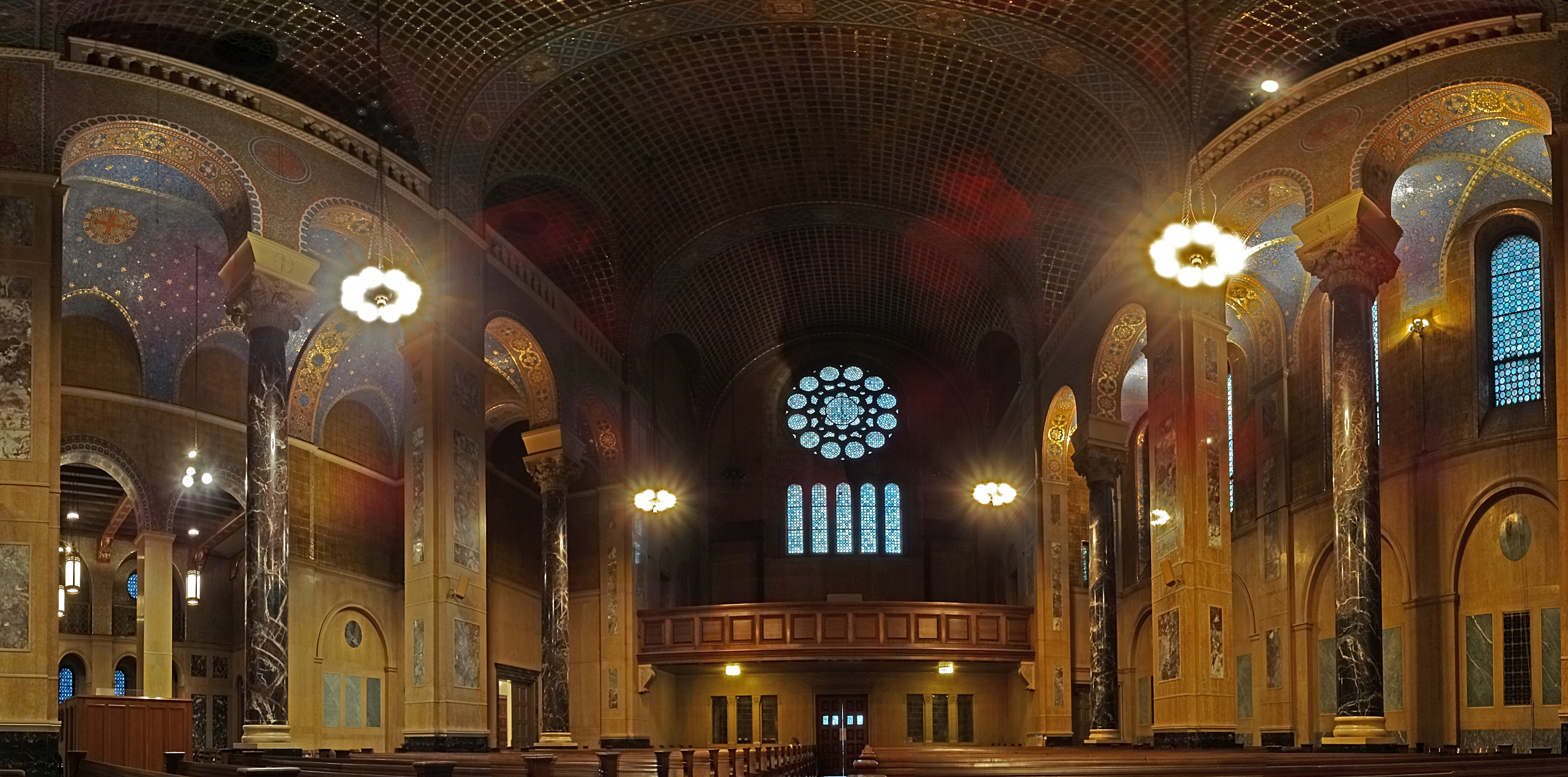 Interior Panorama of the Christ Church (Manhattan), view to the main portal